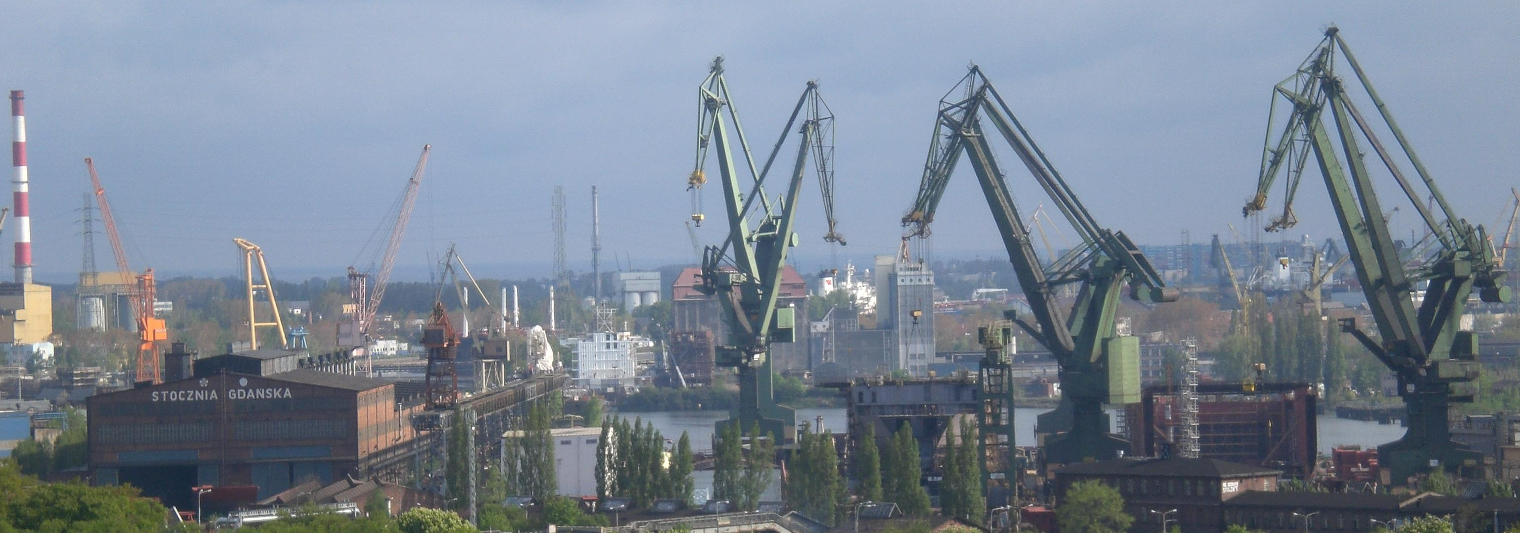 Gdańsk Shipyard (a view from Góra Gradowa)